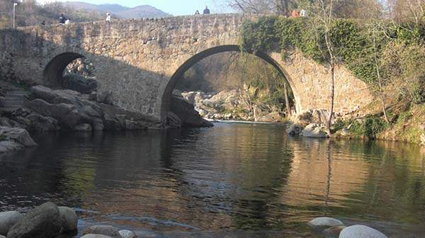 cuartospuente